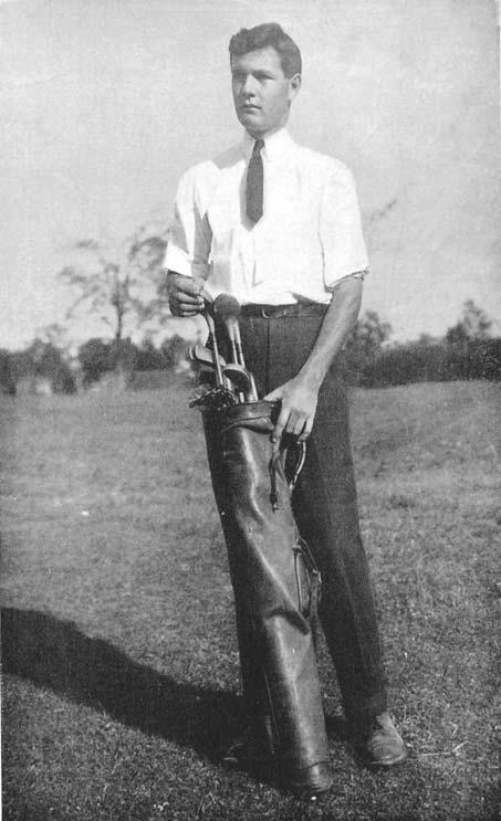 Early 20th century American amateur golf champion H. Chandler Egan in approximately 1904. Gold medal (team), silver medal (individual) - 1904 Olympic Games, St. Louis. The original caption read: "H. Chandler Egan, Amateur Golf Champion of America."